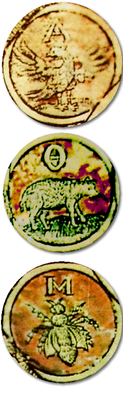 Roundels on Antim Monastery (Bucharest) frontispice: Argeş, Teleorman and Mehedinţi Counties